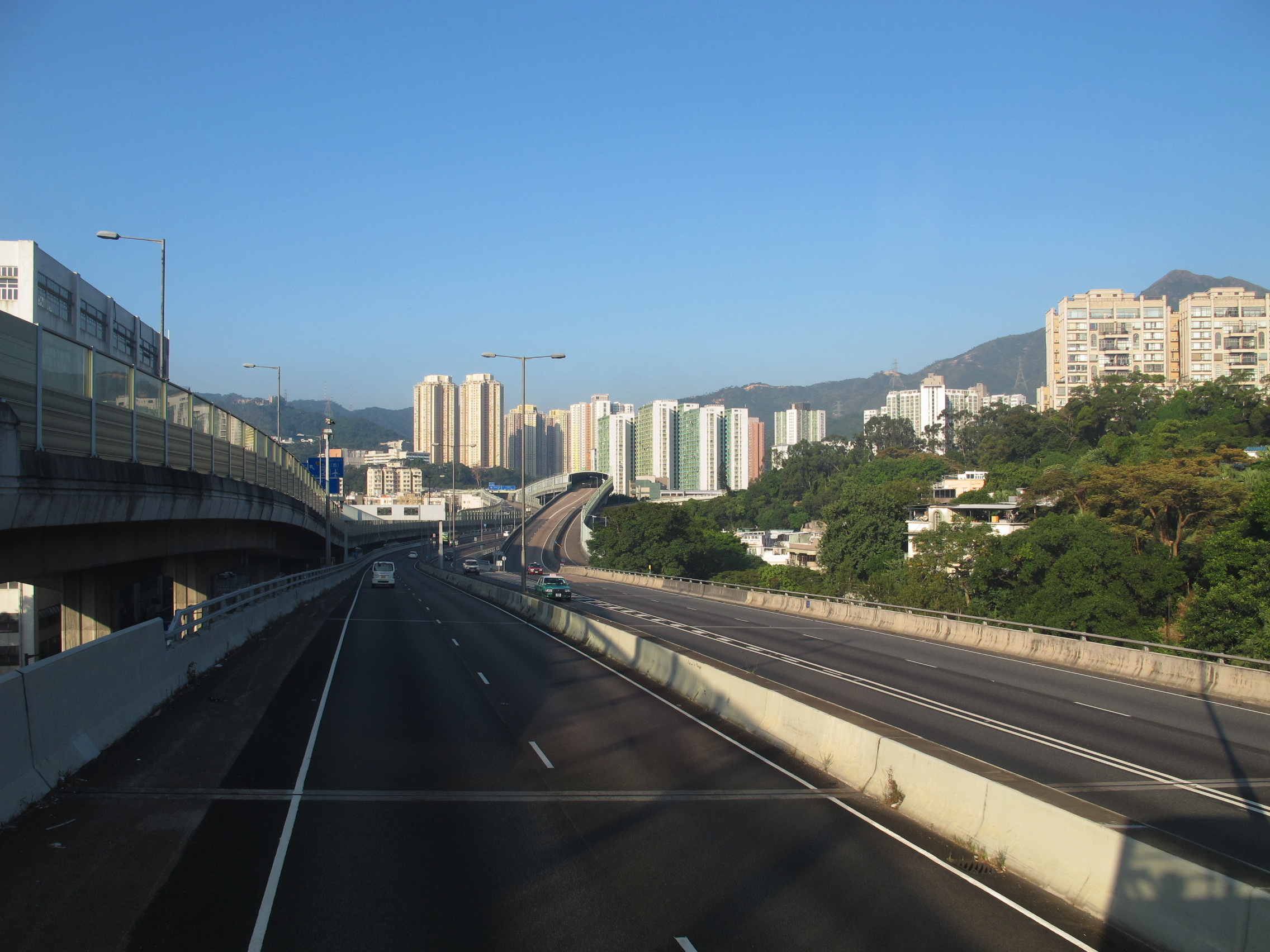 Shing Mun Tunnels Road 城門隧道公路